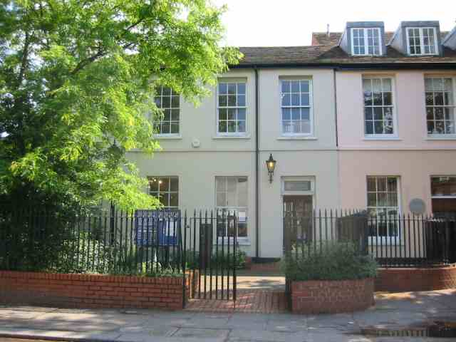 The Museum at Barnet